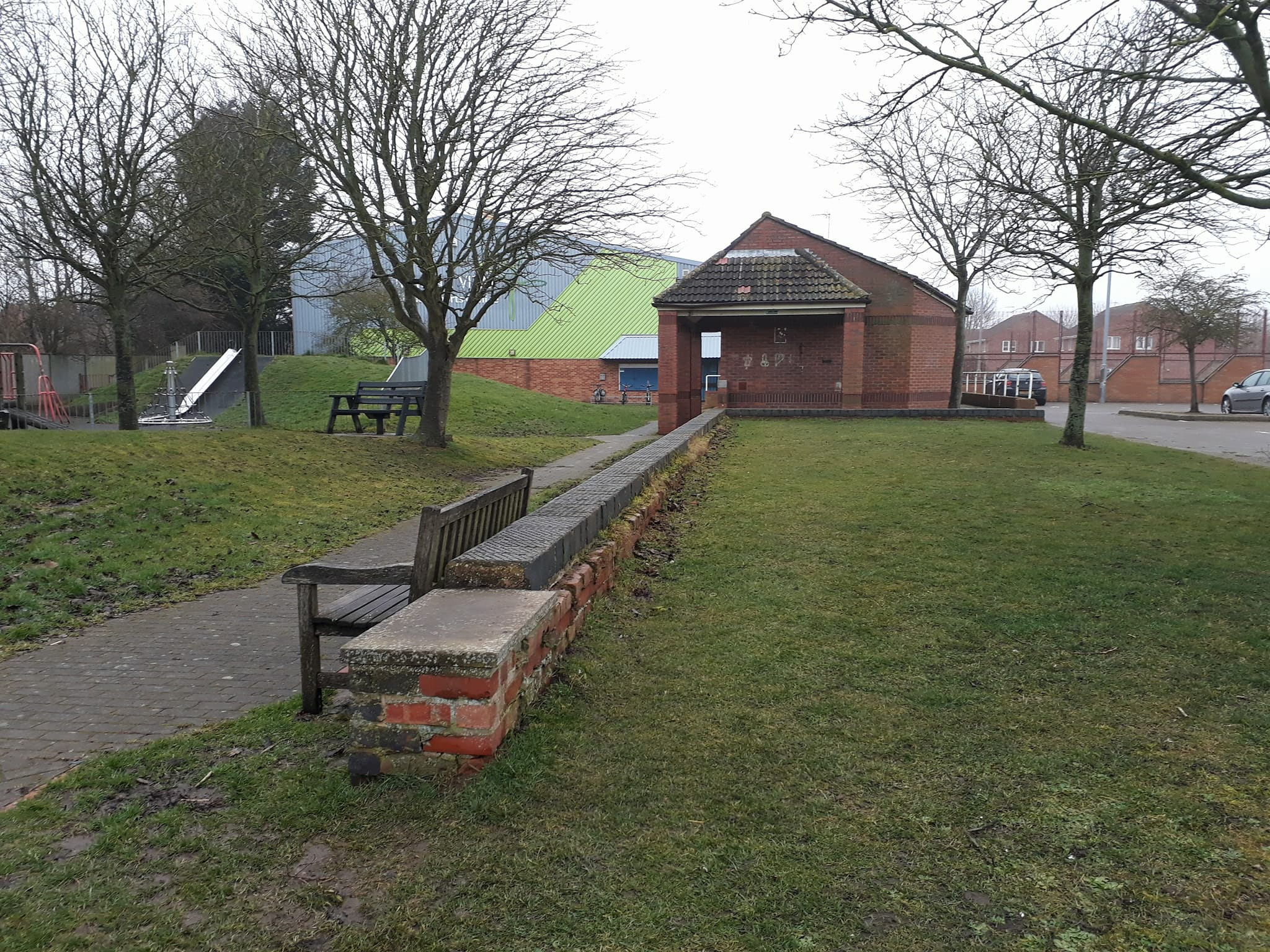 My own photo.